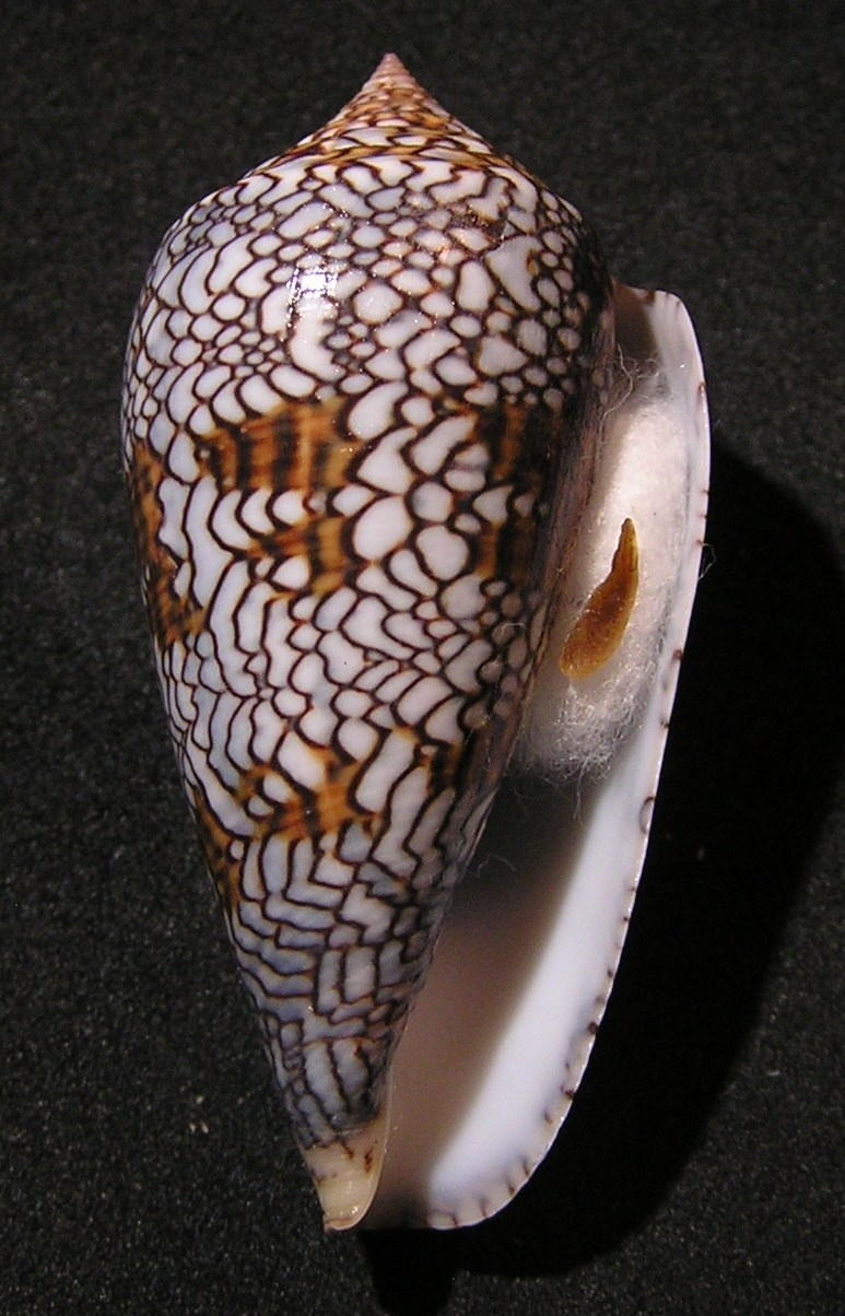 Conus textile textile forma archiepiscopus Hwass in Bruguière, 1792 (synonym: Conus euetrios Sowerby, 1882); Mozambique